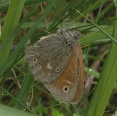 Coenonympha tullia, Lithuania